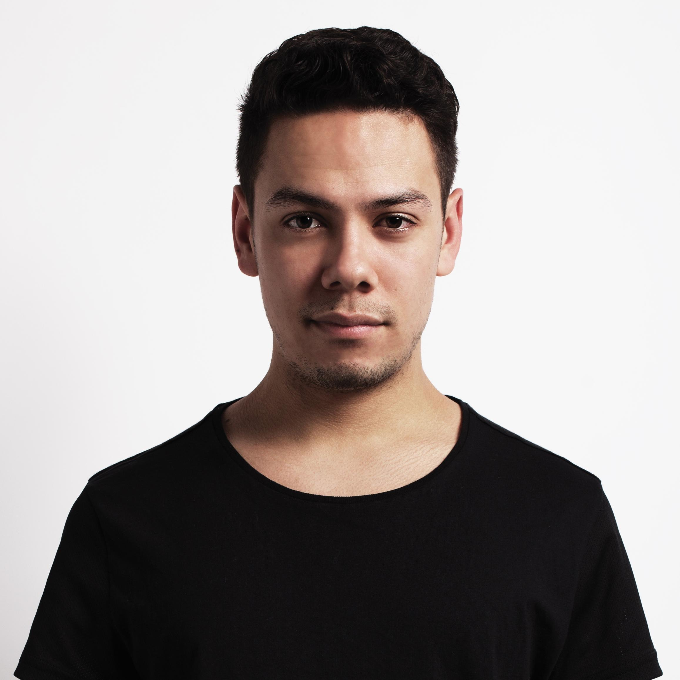 Julian Calor